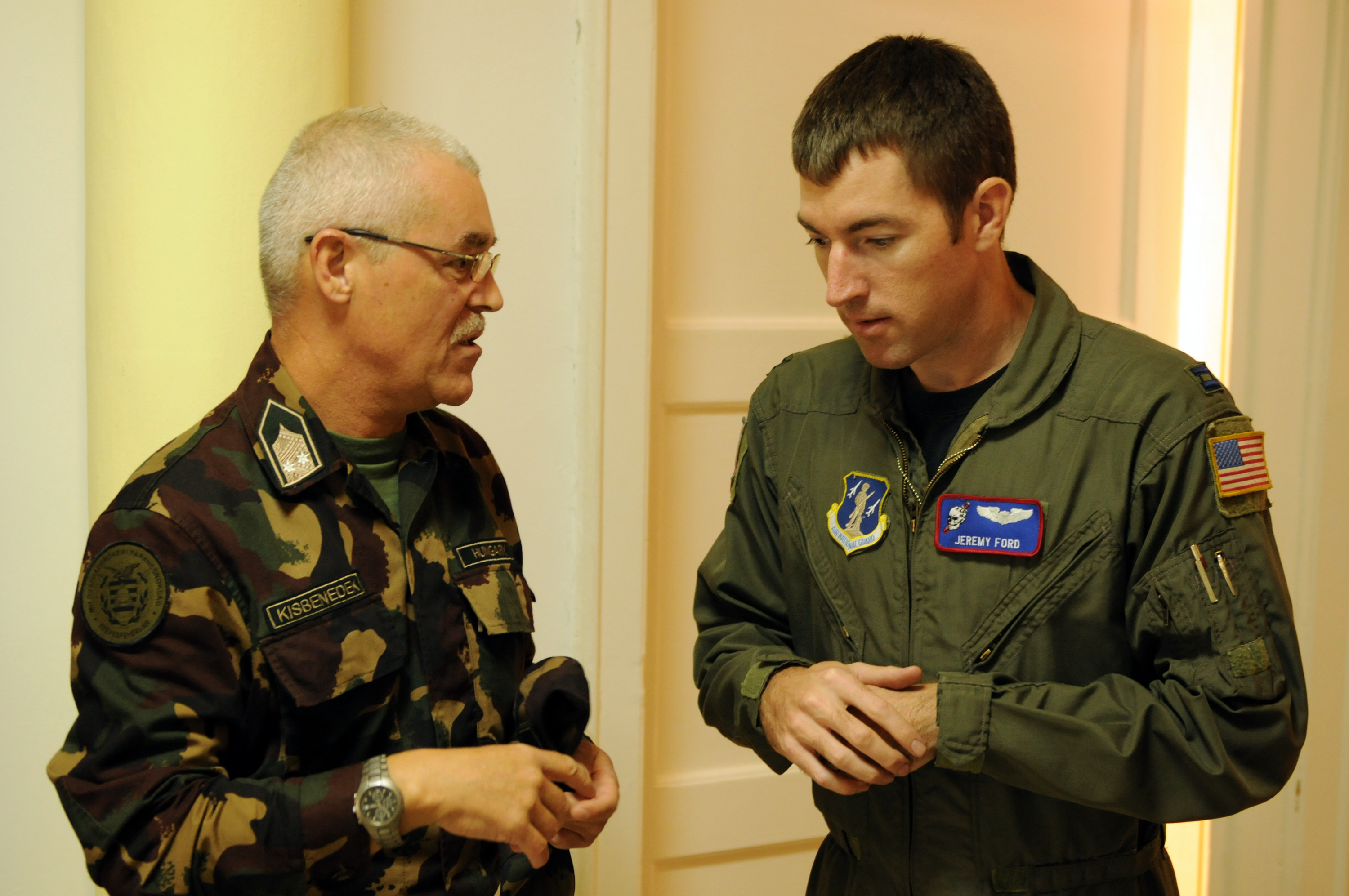 Air Force Capt. Jeremy Ford, the Ohio National Guard's bilateral affairs officer in Hungary, talks with a Hungarian counterpart in Hungary, Sept. 14, 2010.